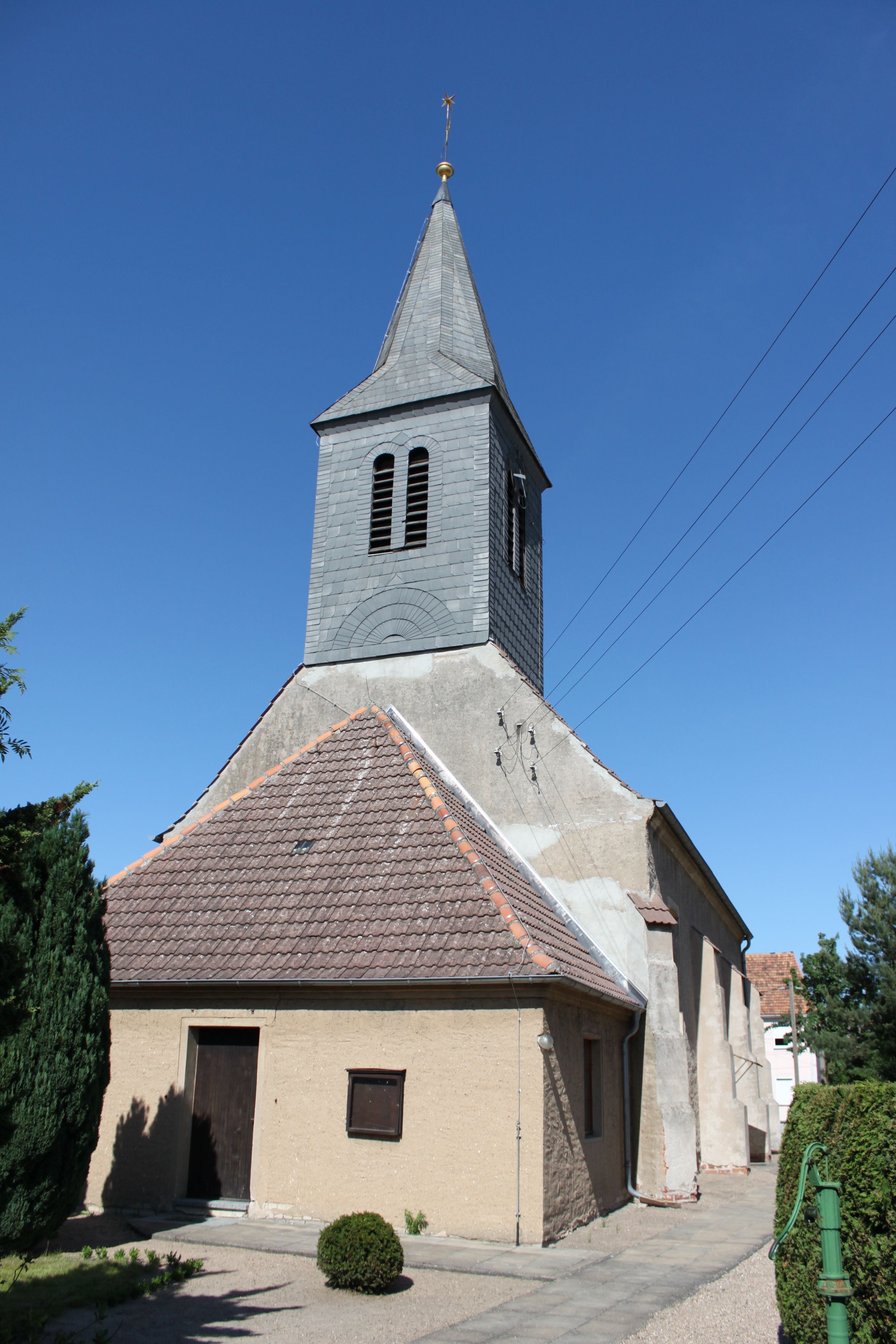 church of Möglenz